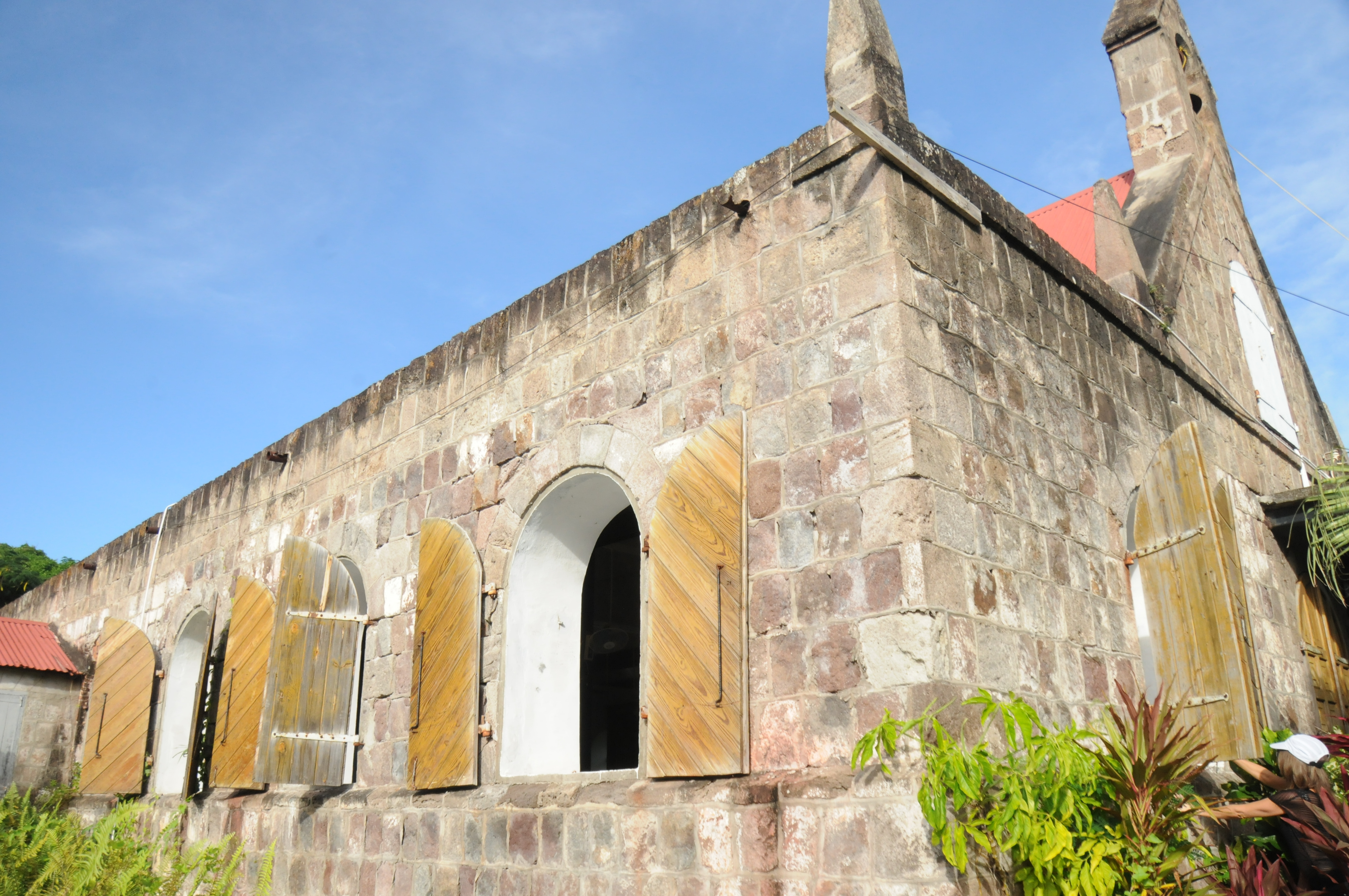 St John Figtree Parish Church, Nevis - location of Lord Nelson's marriage registration